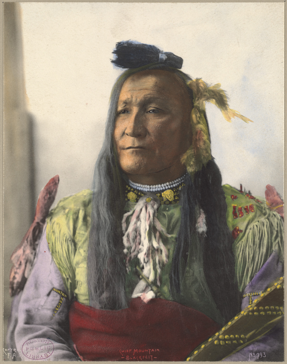 BPLDC no.: 09_06_000098 Rinehart no.: 793 Title: Chief Mountain, Blackfeet Photographer: Rinehart, F. A. (Frank A.) Copyright date: 1898 Extent: 1 photographic print : platinum, hand-colored Genre: Platinum prints; Portrait photographs Subject: Indians of North America; Algonquian Indians; Trans-Mississippi and International Exposition (1898 : Omaha, Neb.) BPL Department: Print Department